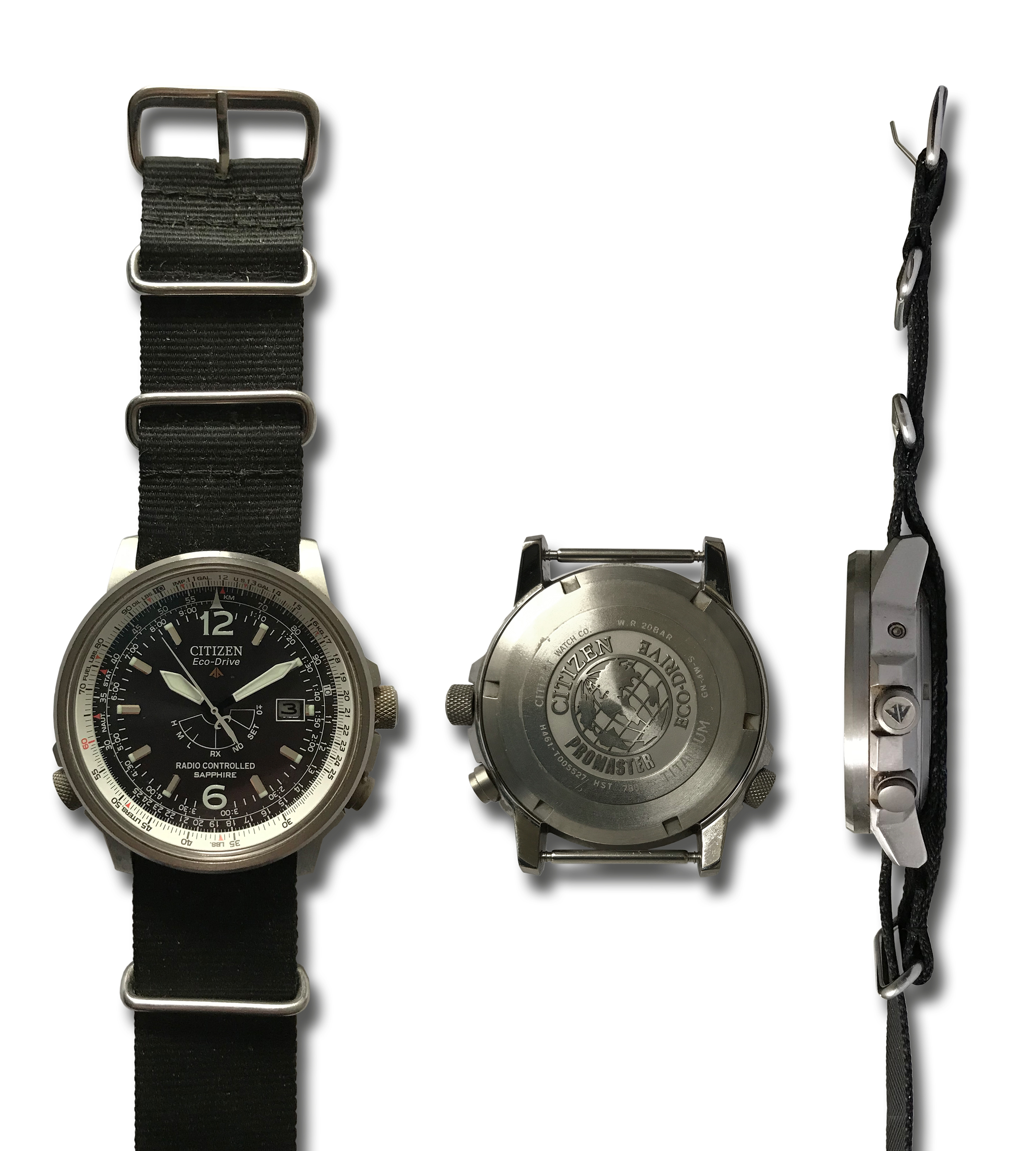 Citizen Men's Watch Promaster Radio Controlled Titanium AS2031-57E. Citizen Eco-Drive wristwatch "Radio controlled" from 2008 with titanium case and sapphire crystal. The watch is shown on a NATO style aftermarket strap made of ballistic nylon.